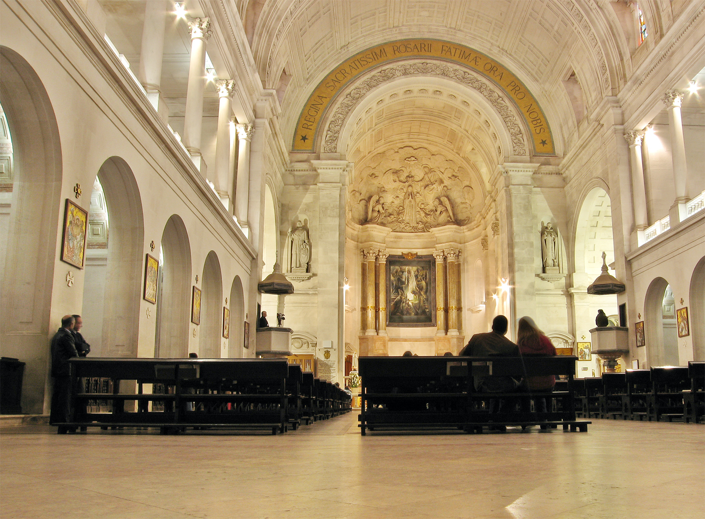 Inside the basilica of Fatima